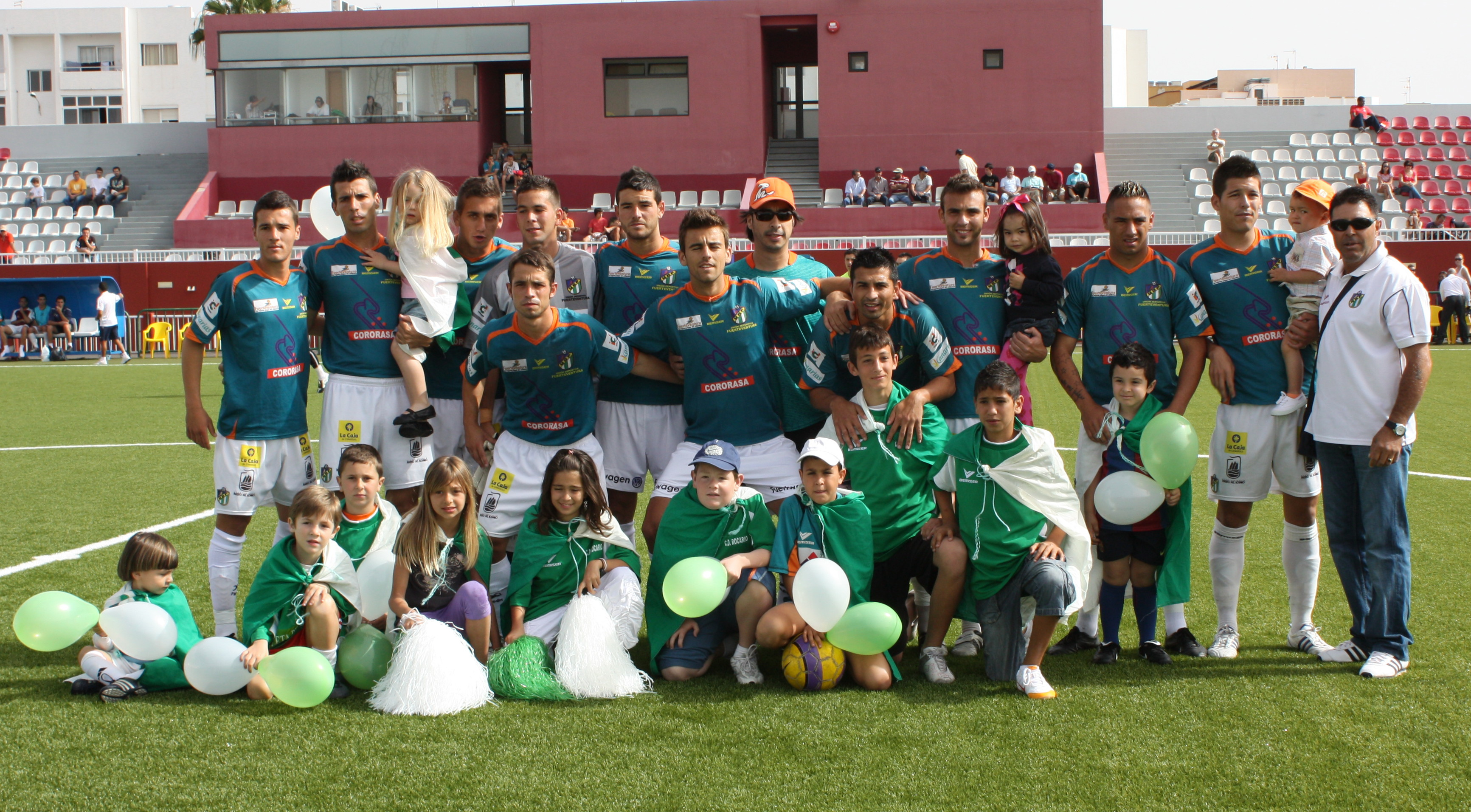 Union Deportiva Fuerteventura pictured before the match against Atletico Madrid B